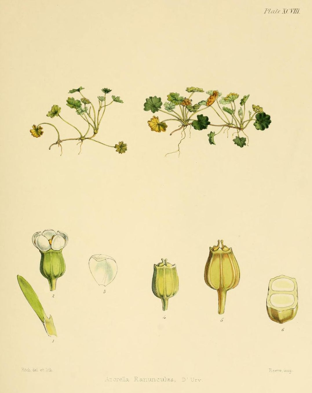 jpg of Plate XCVIII of Hooker's Flora Antarctica. Azorella ranunculus D'Urv